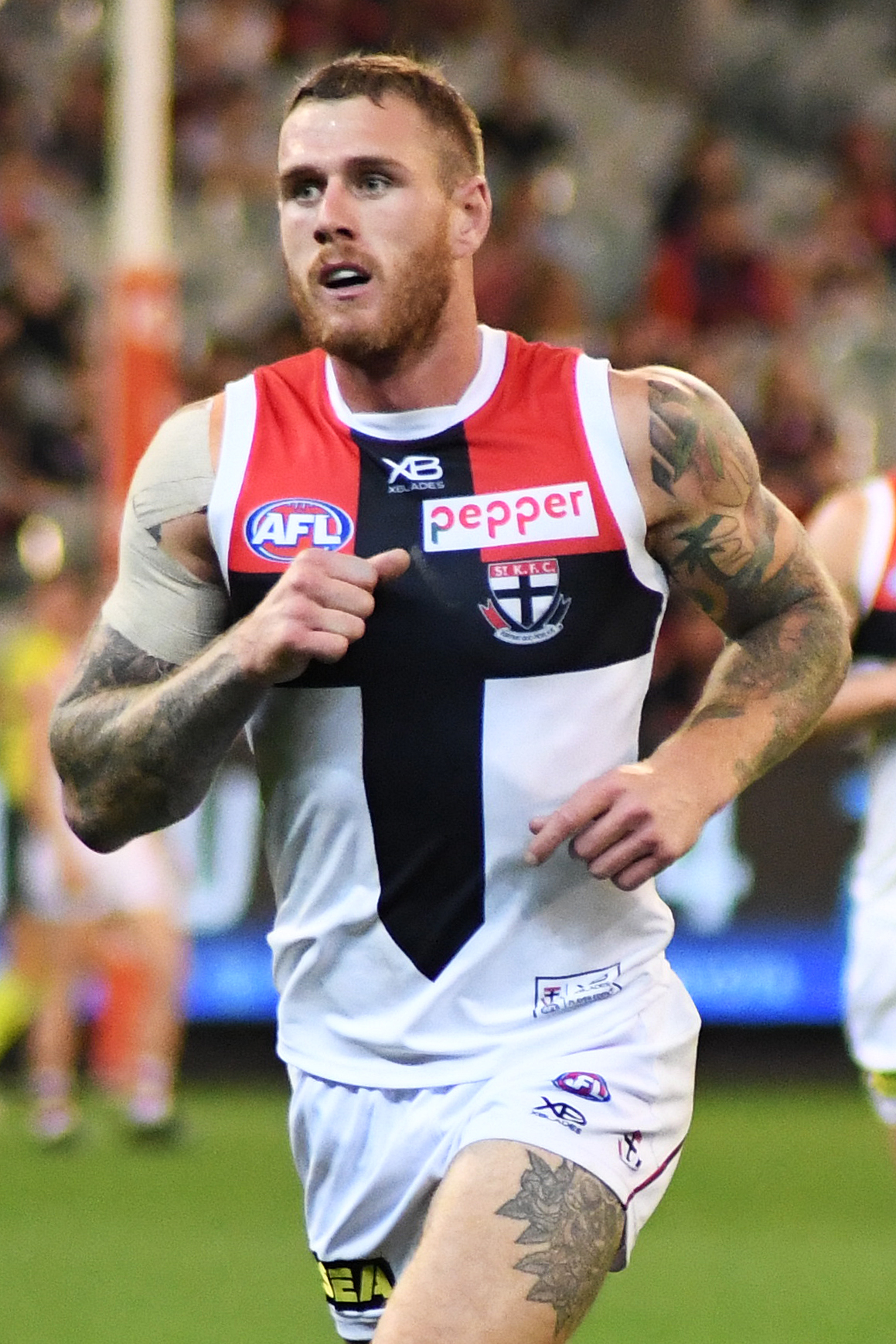 Tim Membrey of St Kilda during the 2019 AFL round 5 match between Melbourne and St Kilda at the Melbourne Cricket Ground on Saturday, 20 April 2019 in Melbourne, Victoria.